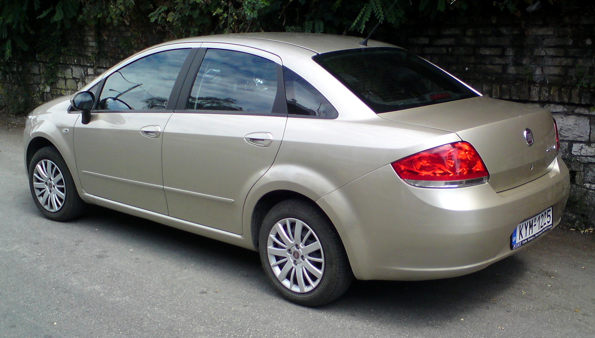 2008 Fiat Linea photographed in Corfu